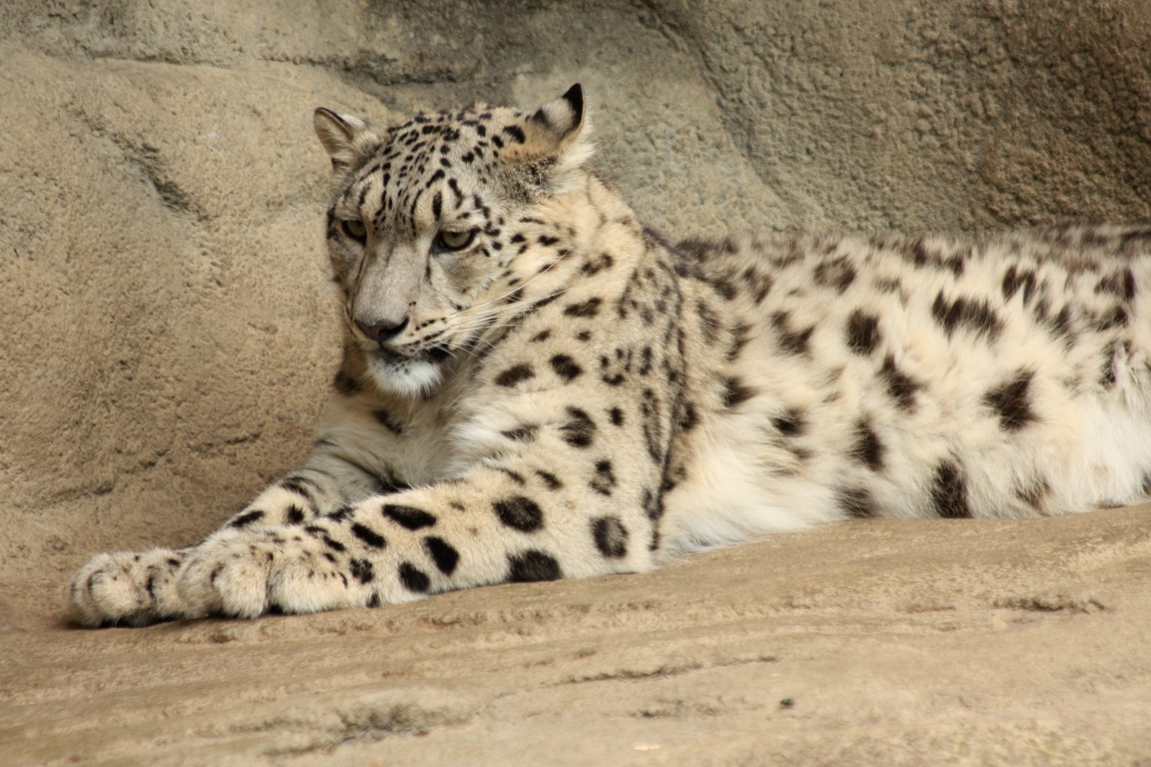 Snow leopard in Zurich Zoo